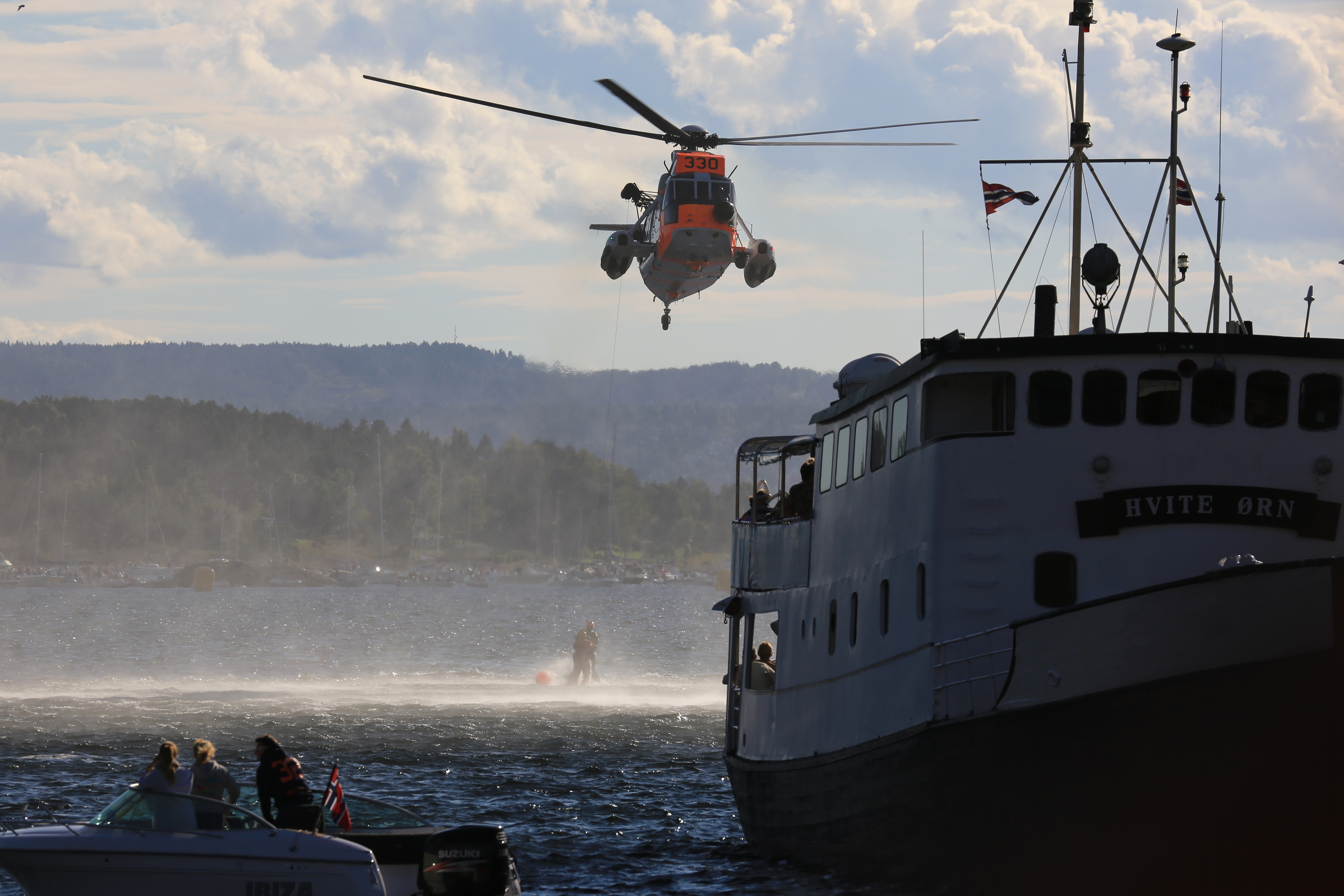 Helicopter from the No. 330 Squadron RNoAF demonstrating rescue operation at an air show in central Oslo